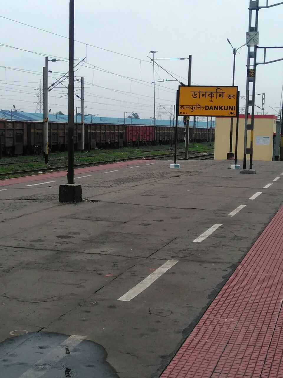 Dankuni railway station in Dankuni